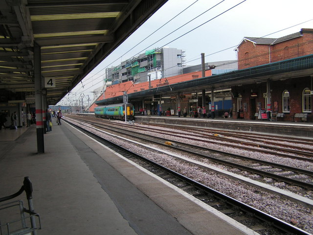 Doncaster Railway Station.